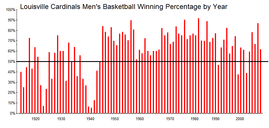 Graph of UL basketball winning percentage by year. Created by uploader, all rights released.